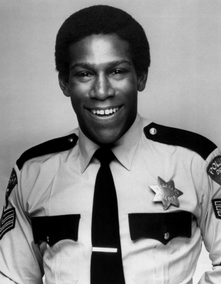 Photo of Kene Holliday as Curtis Baker from the television program Carter Country.